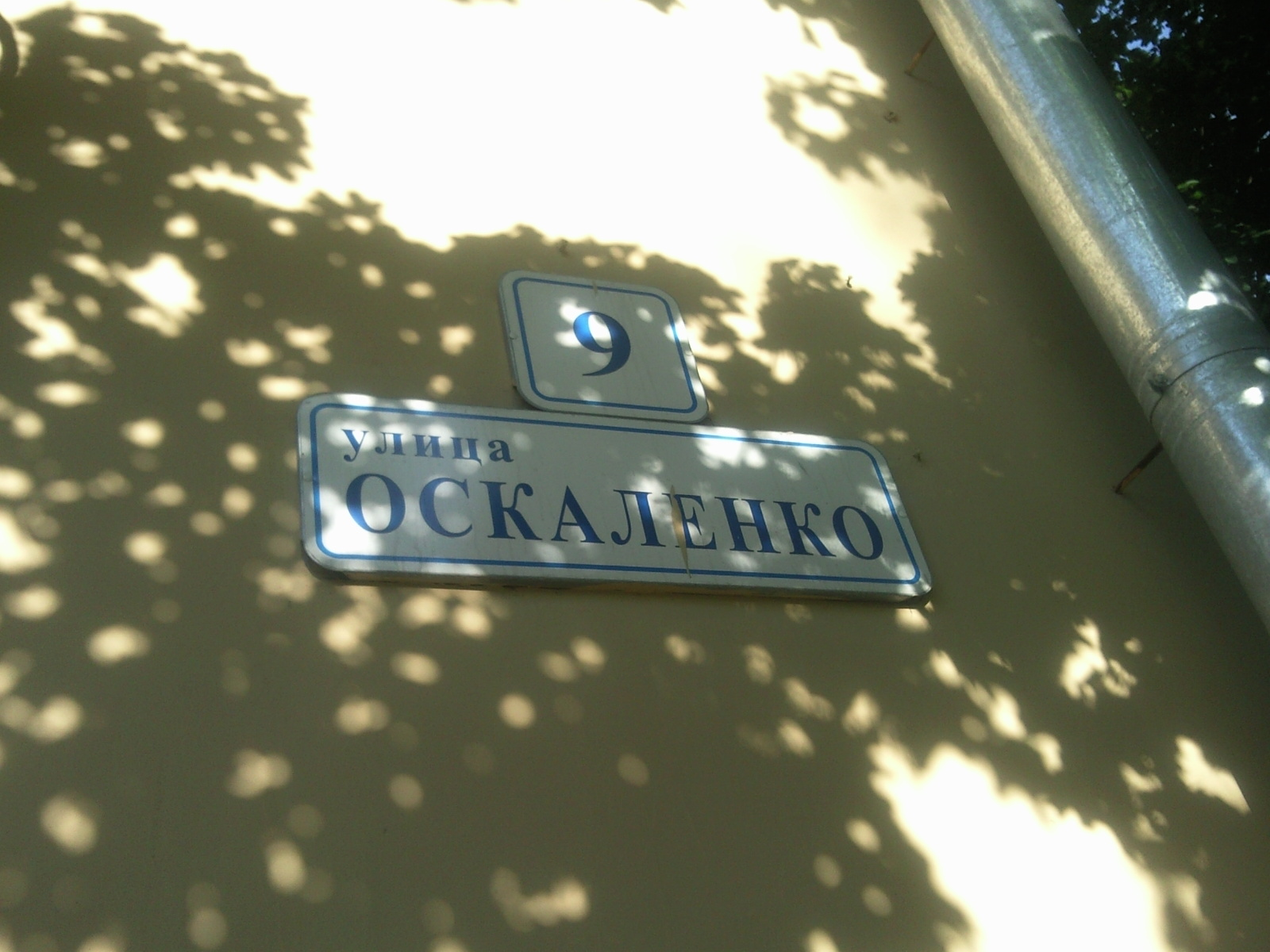 Oskalenko Street, Saint Petersburg, Russia